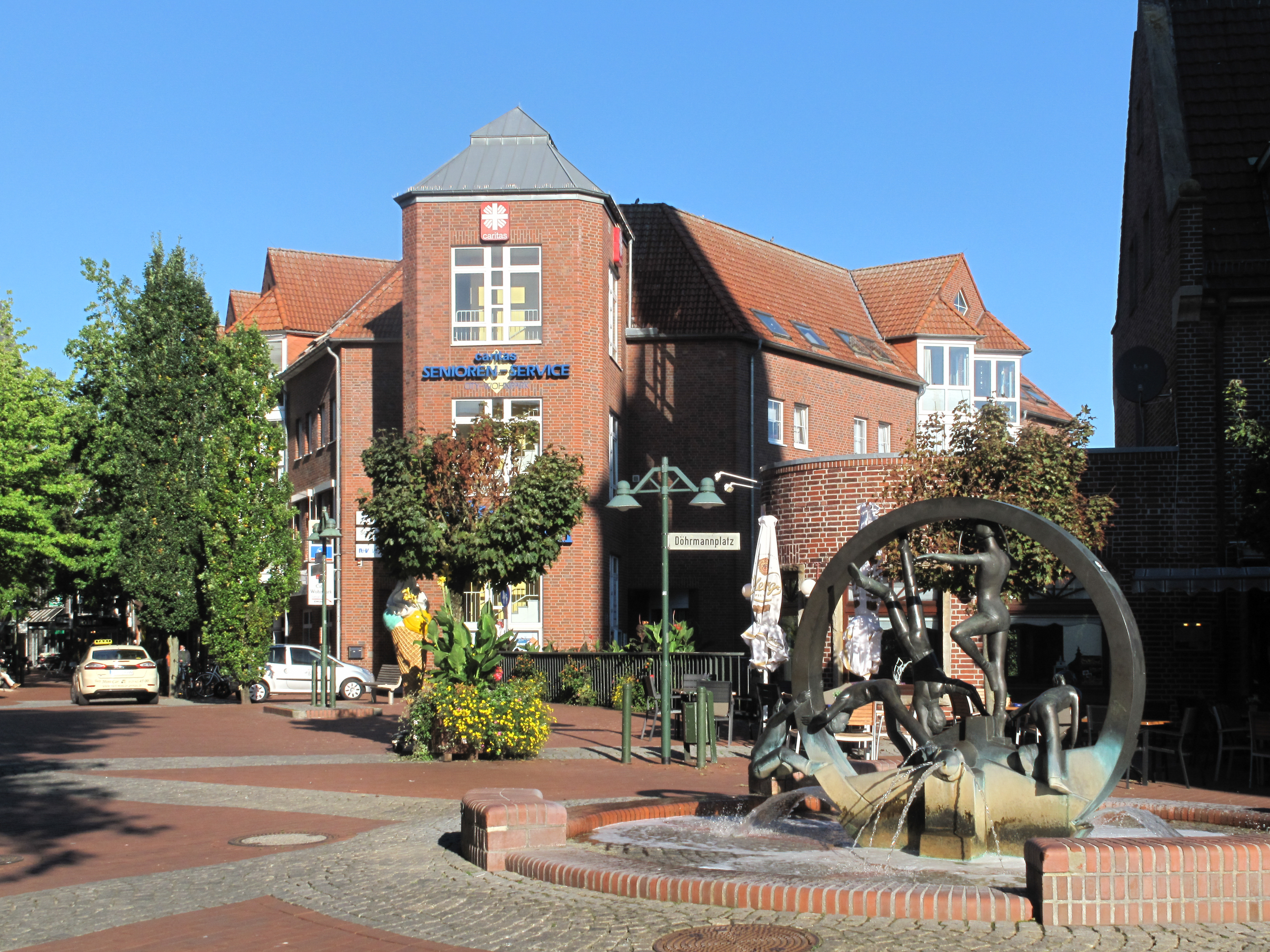 Gronau, sculpture near Neustraße-Döhrmannplatz